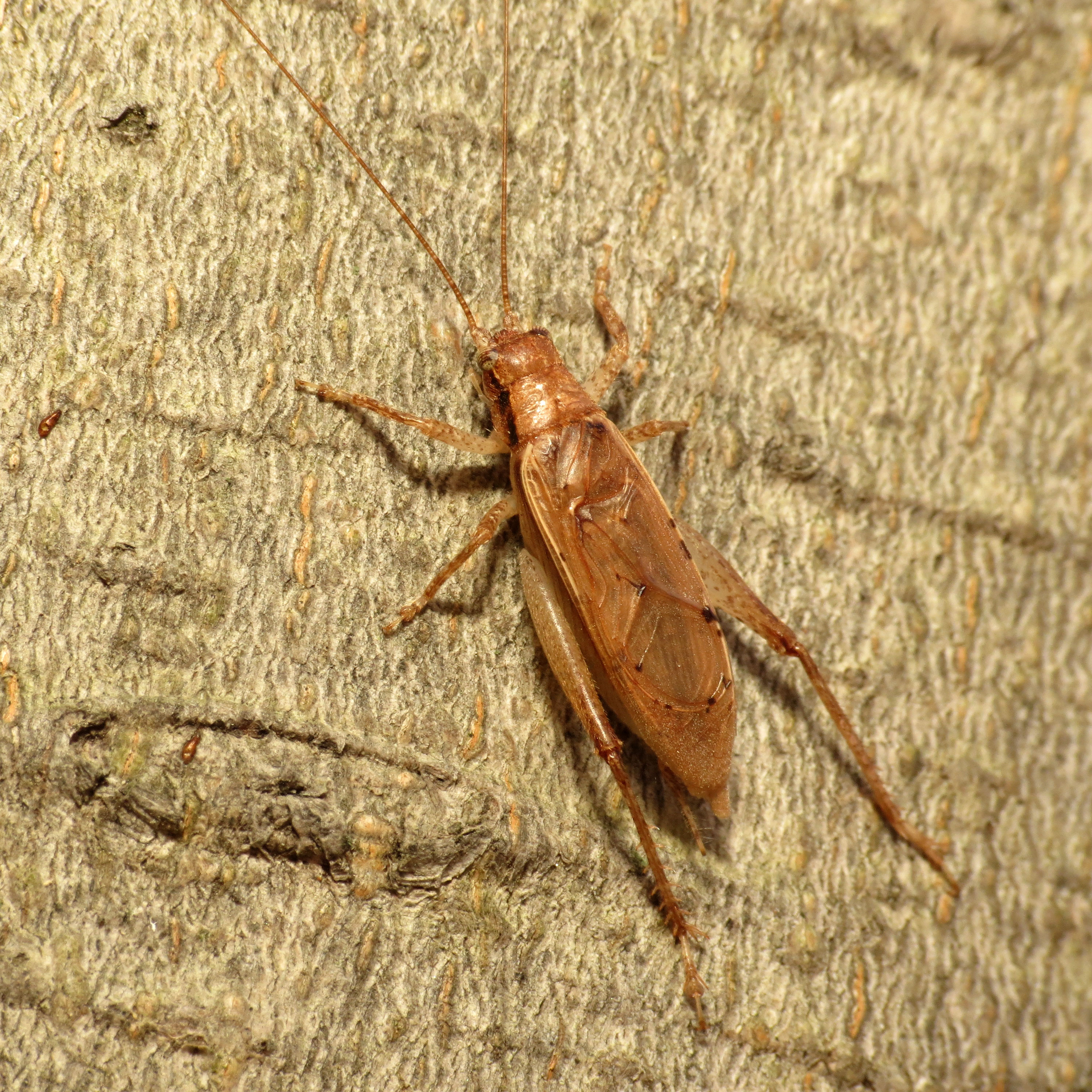 Orocharis saltator. Rock Creek Park, Washington, DC, USA